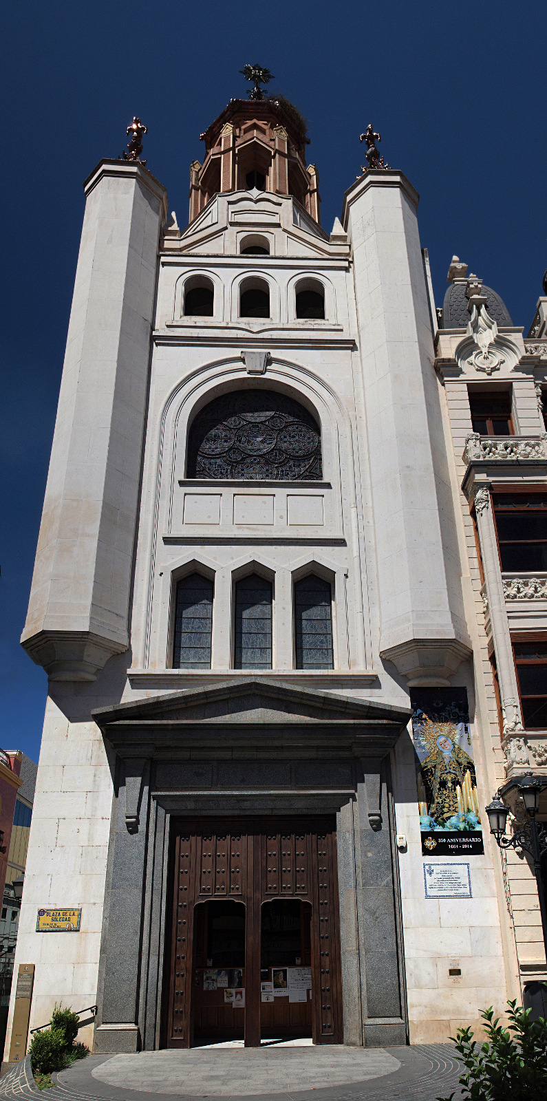 Badajoz, Plaza de la Soledad, Church of Our Lady of Soledad. Stitch of 3 horizontal images.